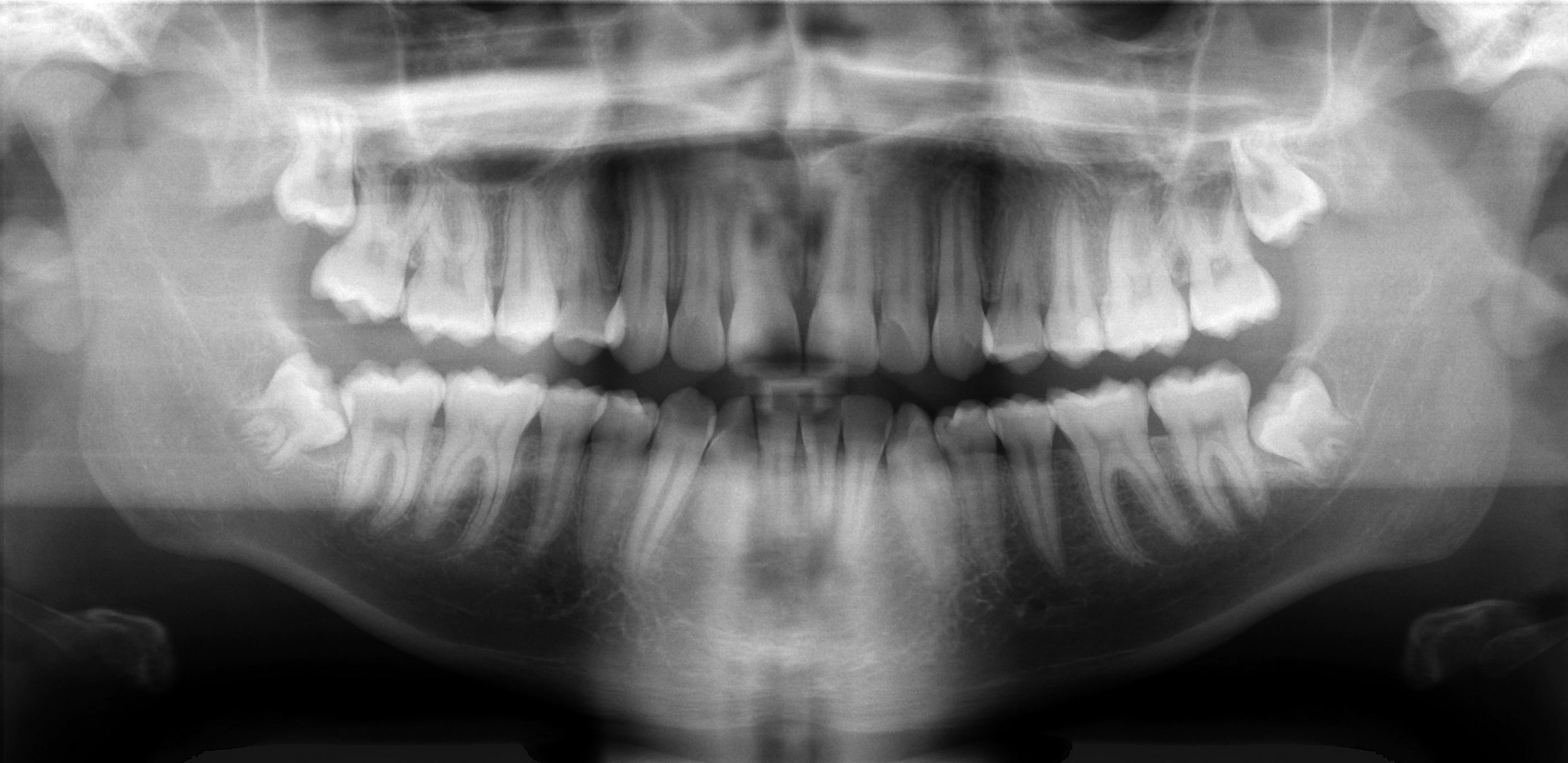 A panoramic radiograph showing impacted wisdom teeth in a 16 year old